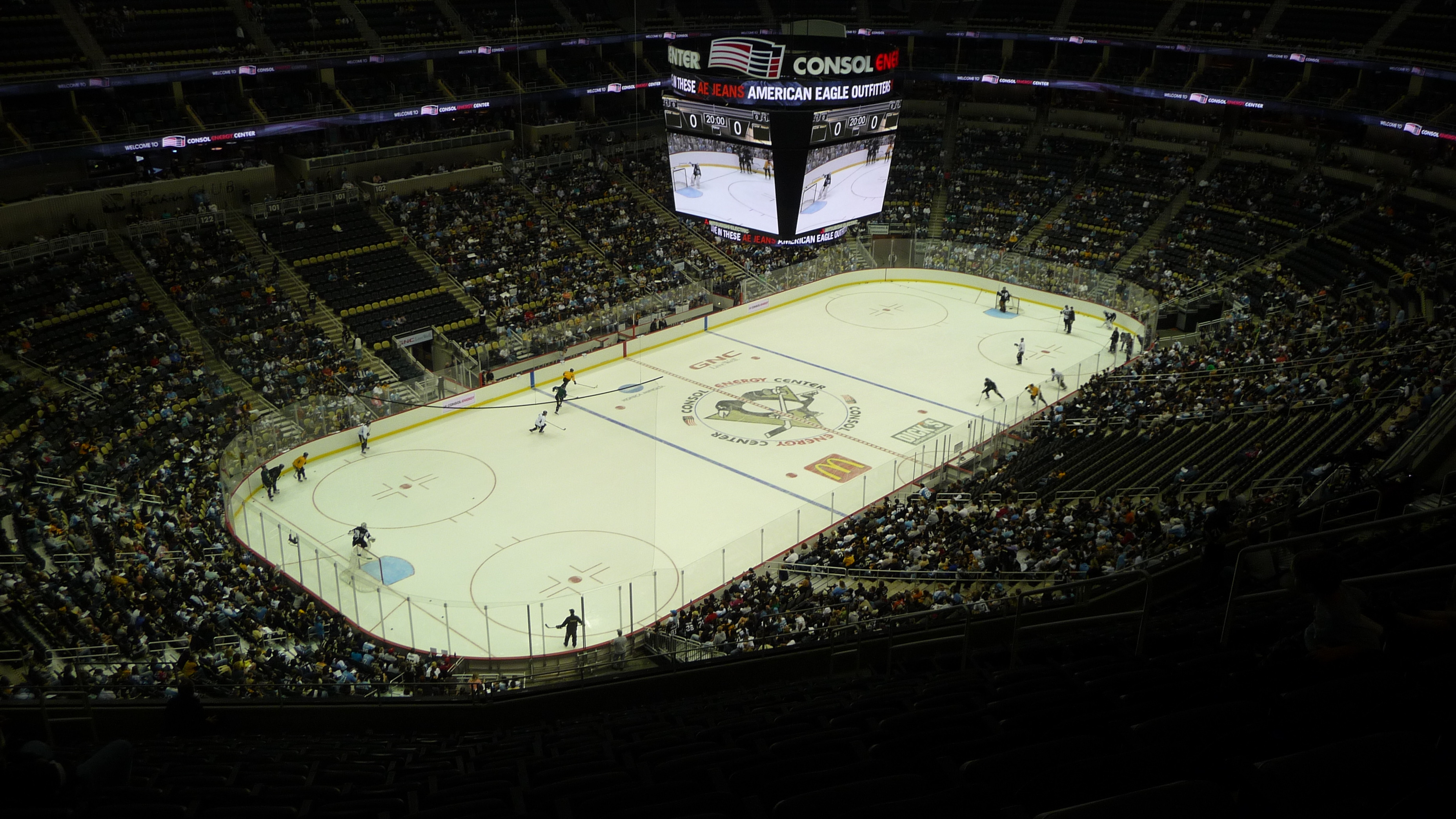 Inside Pittsburgh's Consol Energy Center